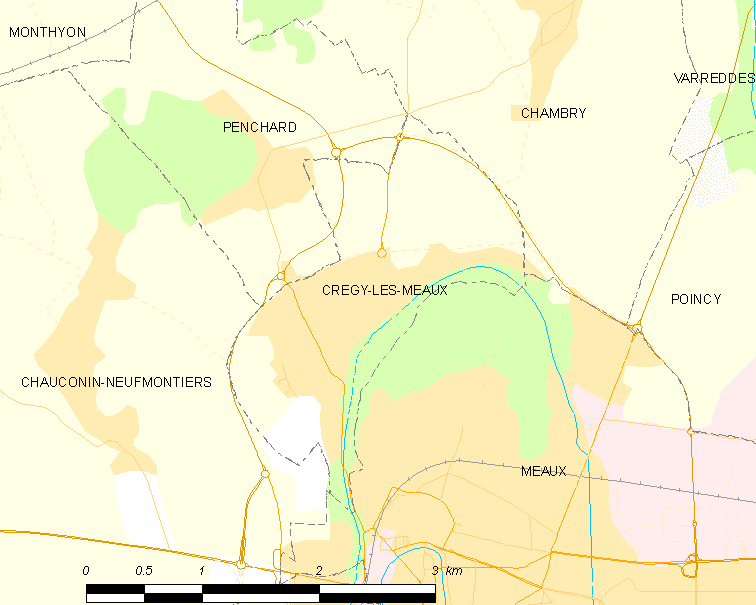 Map of French municipality Crégy-lès-Meaux